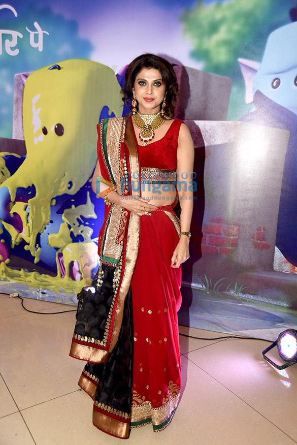 Varsha Usgaonkar at CPAA's fashion show